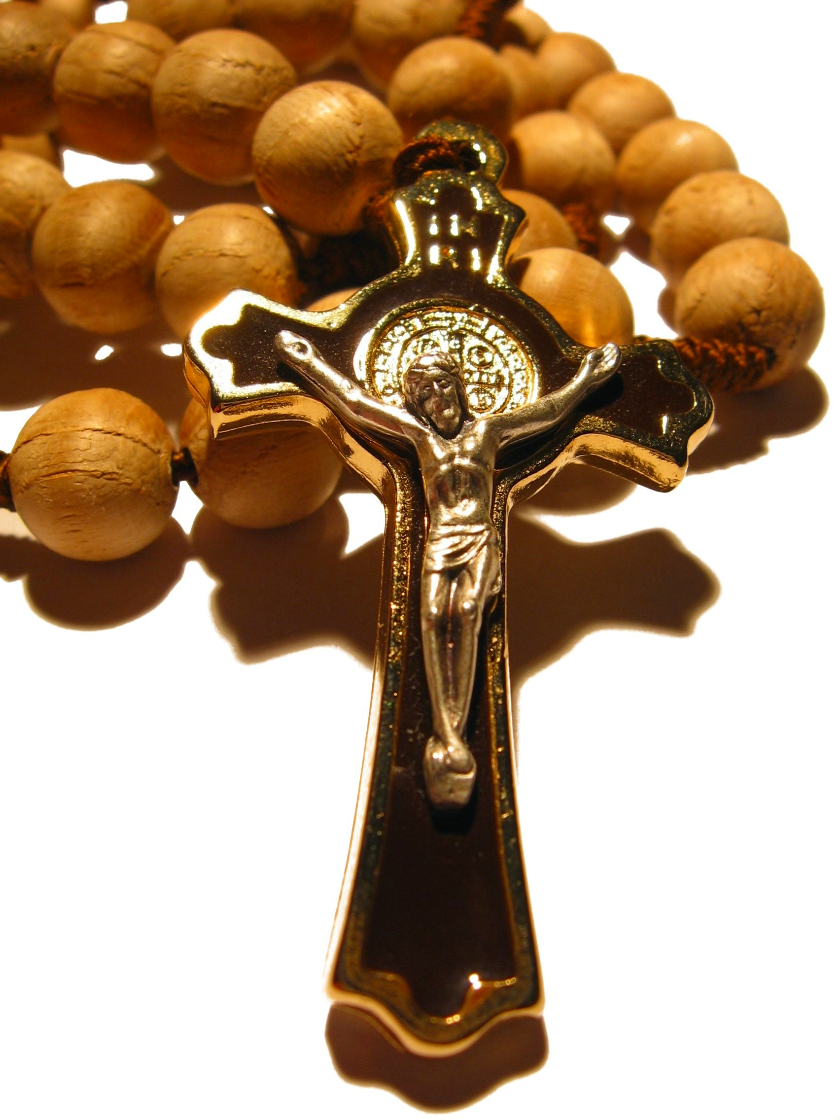 A Catholic Rosary with a St. Benedict medal placed in the center of the cross.